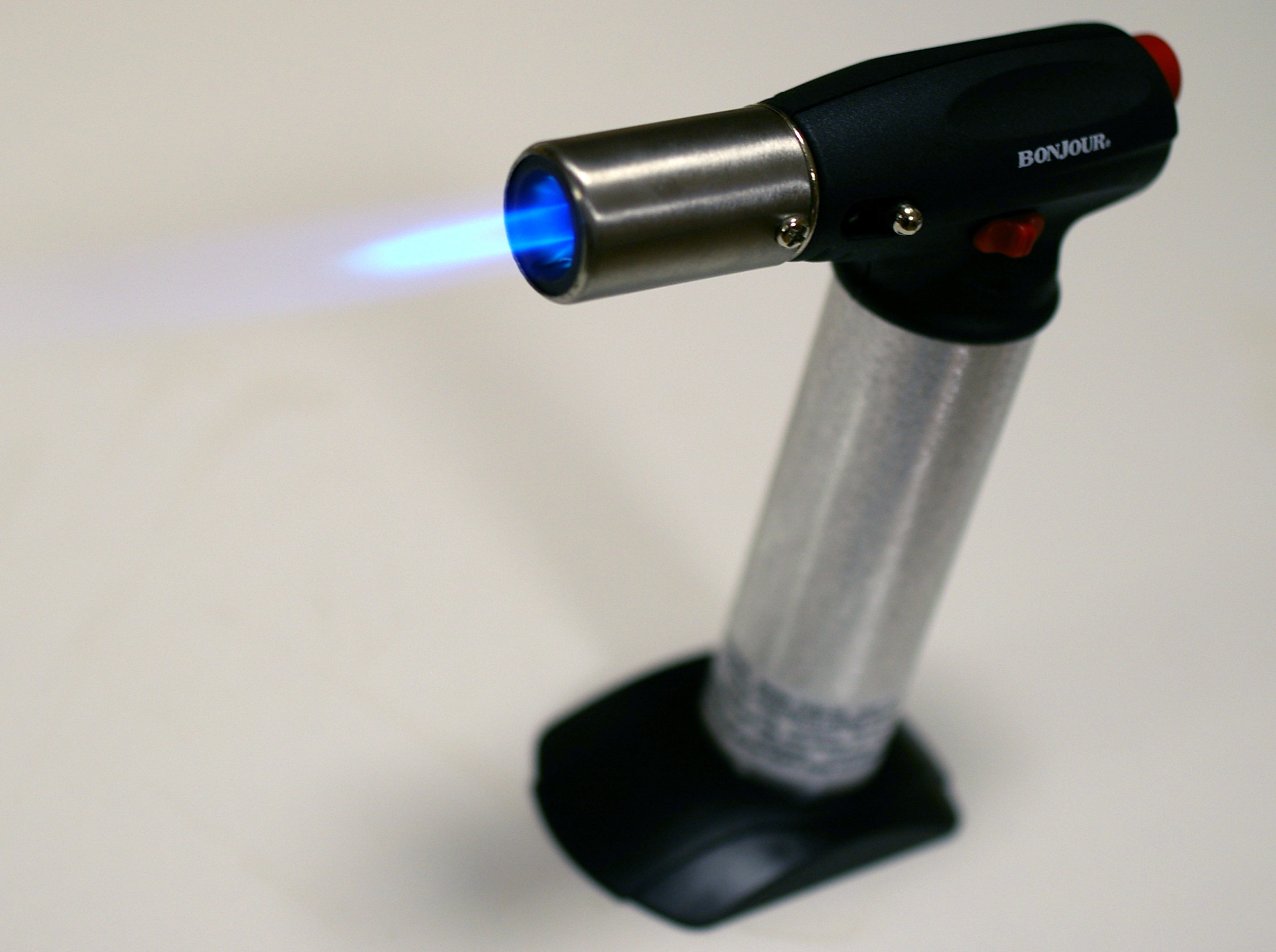 A small butane torch, specifically made for making Crème brûlée